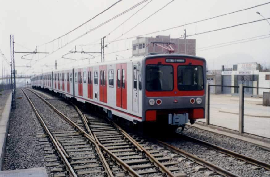 Train of Lima's metro close to Villa El Salvador station